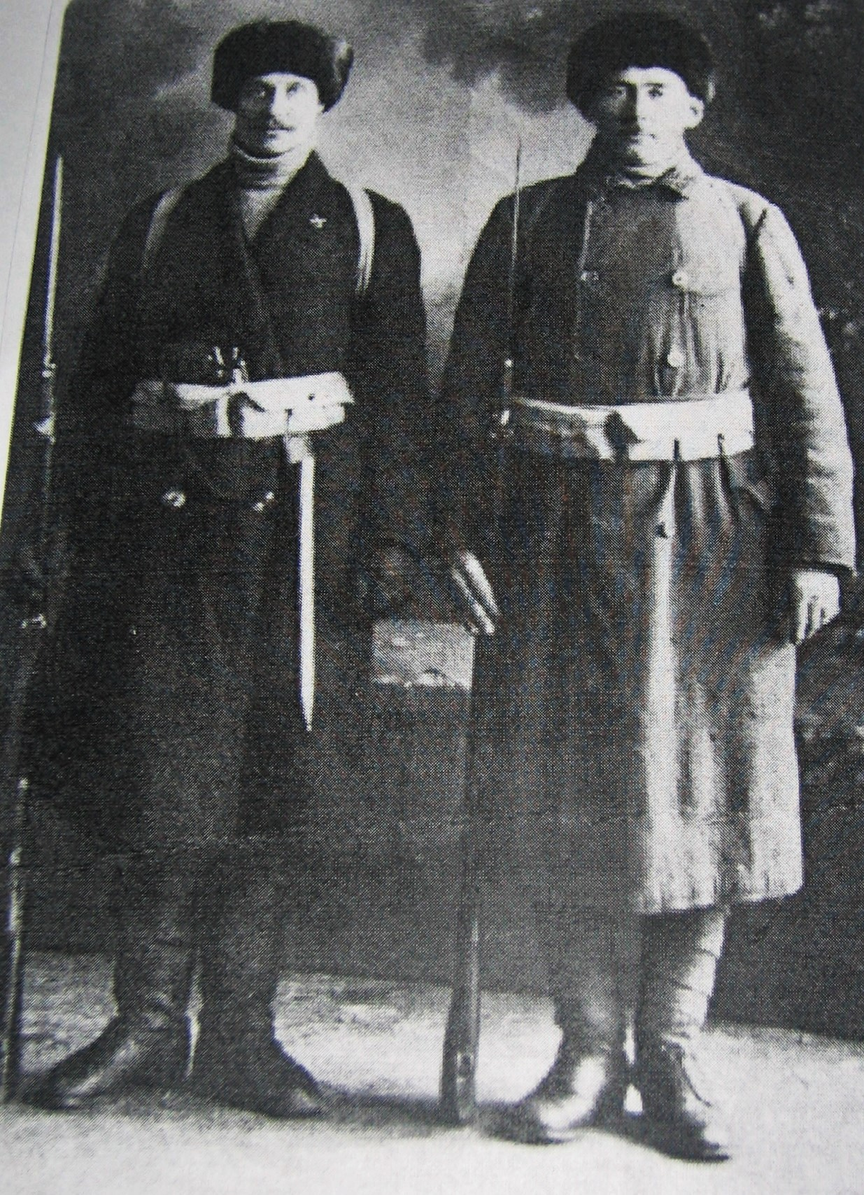 Originally published in Finnish Itä ja Länsi (East and West) magazine, 1928. Photographer unknown